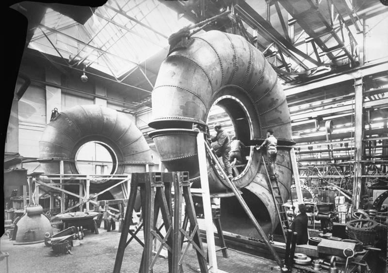 "Assembly of spiral turbines for power plant" "Giants of German technology!" "Voith's giant turbofan turbines for a capacity of 5000 P.S., which are intended for the power plant Nore in Norway, during assembly."